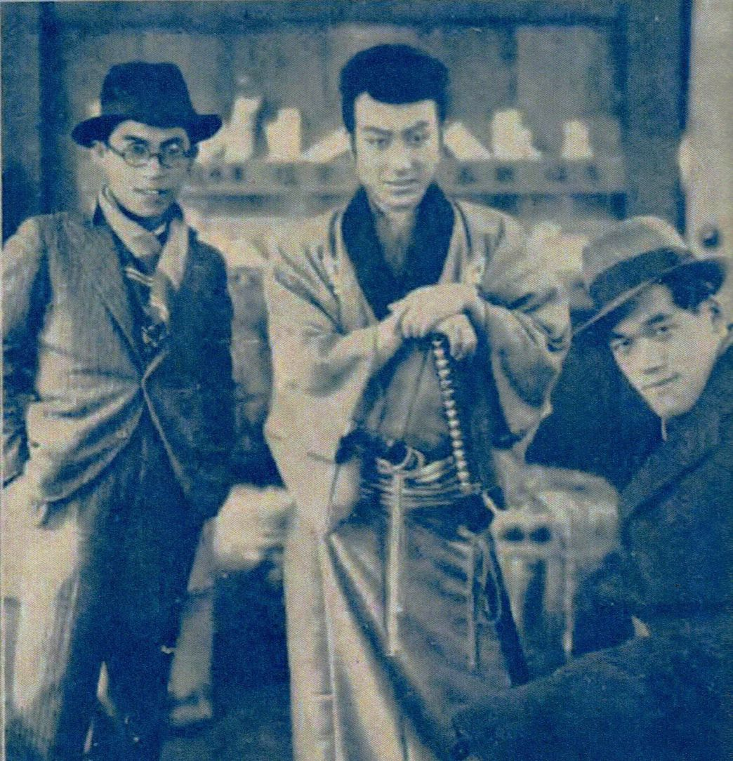 Sadao Yamanaka(right),Chiezō Kataoka(center) and Seitarō Yoshida(left).